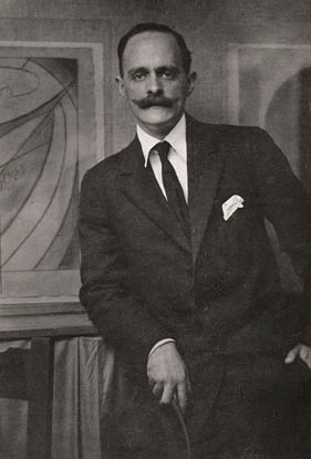 Portrait of Marius de Zayas